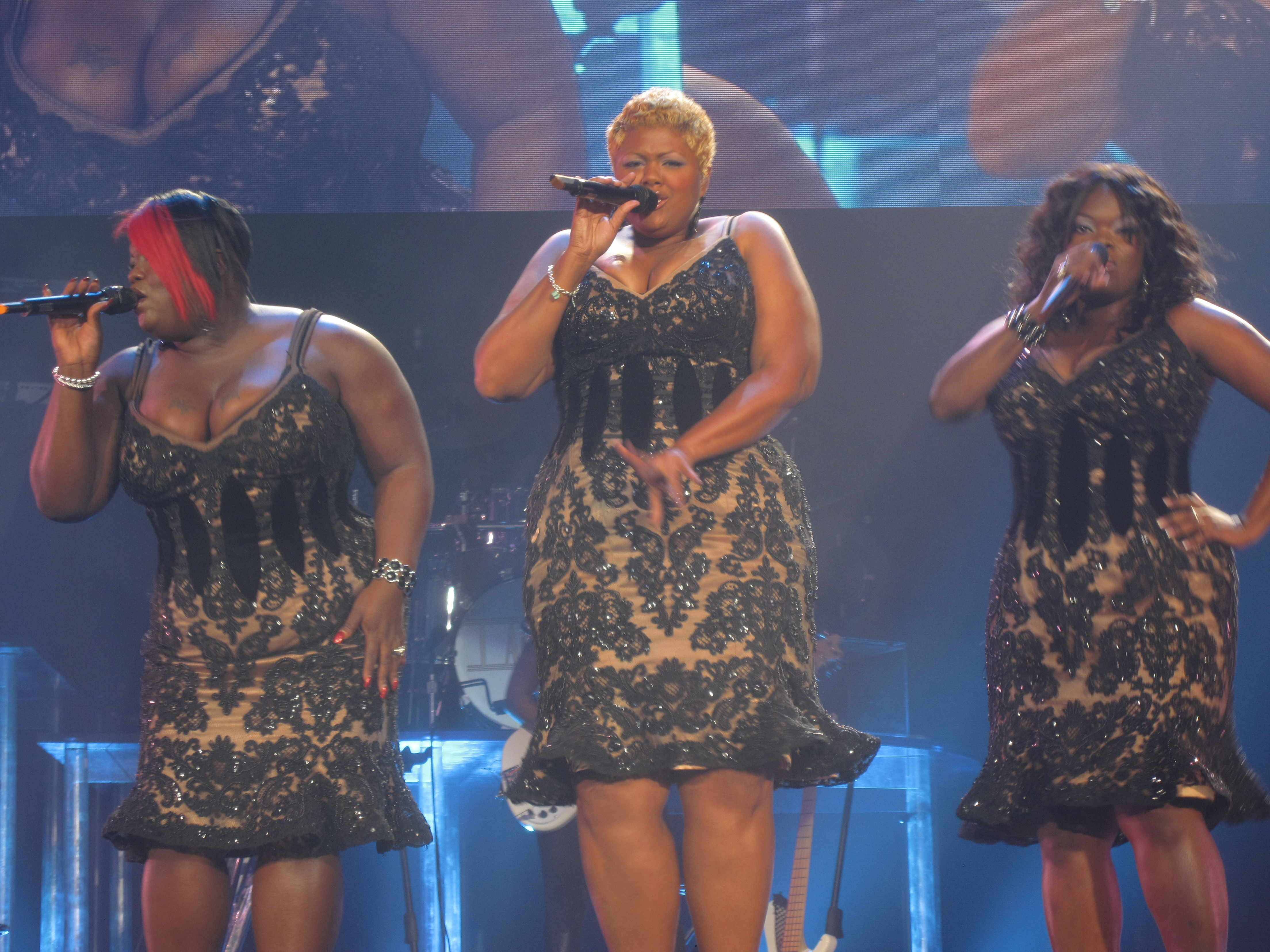 The backing singers of Beyoncé.